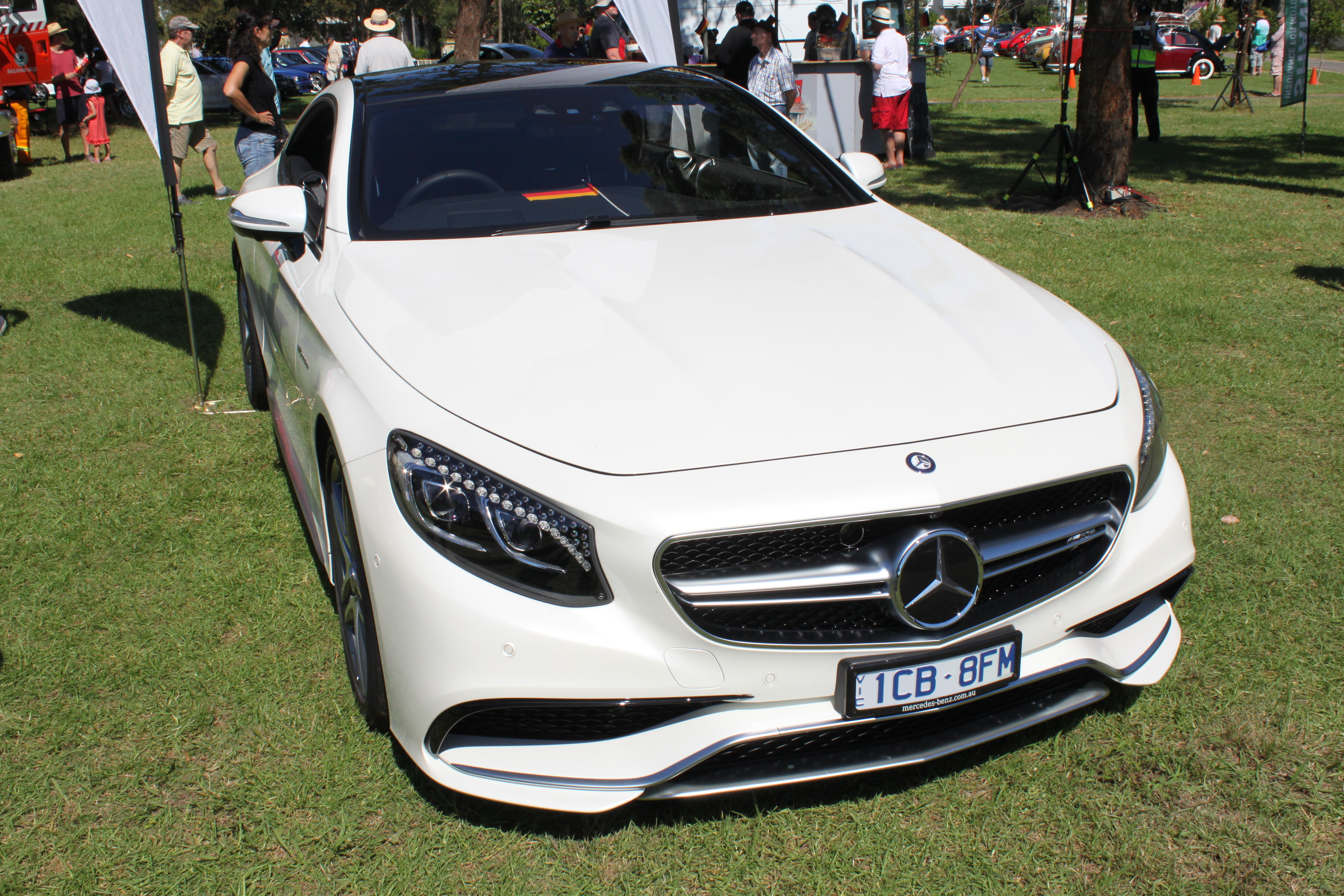 German Auto Fest 2015, Gough Whitlam Park, Earlwood NSW